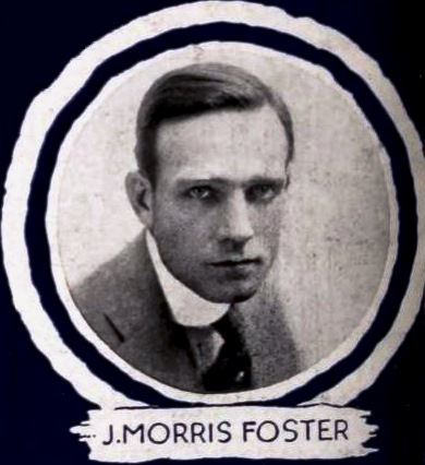 Actor J. Morris Foster from an advertisement for the American film serial The Blue Fox (1921), from the insert after page 18 of the June 4, 1921 Exhibitors Herald.